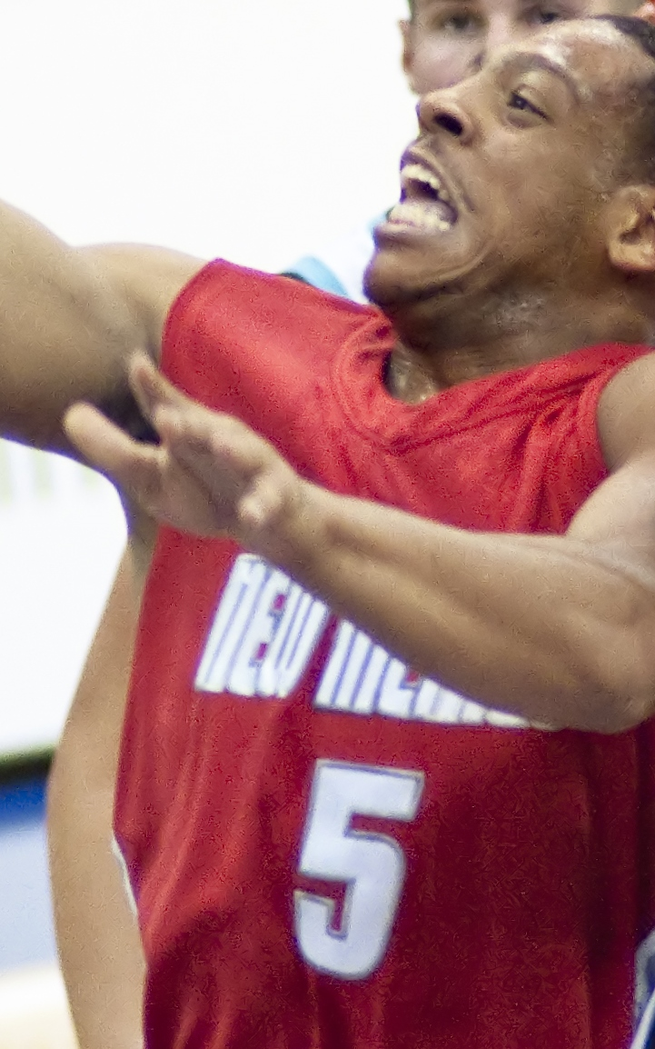 University of New Mexico basketball player Dairese Gary in a game vs the University of San Diego in 2009